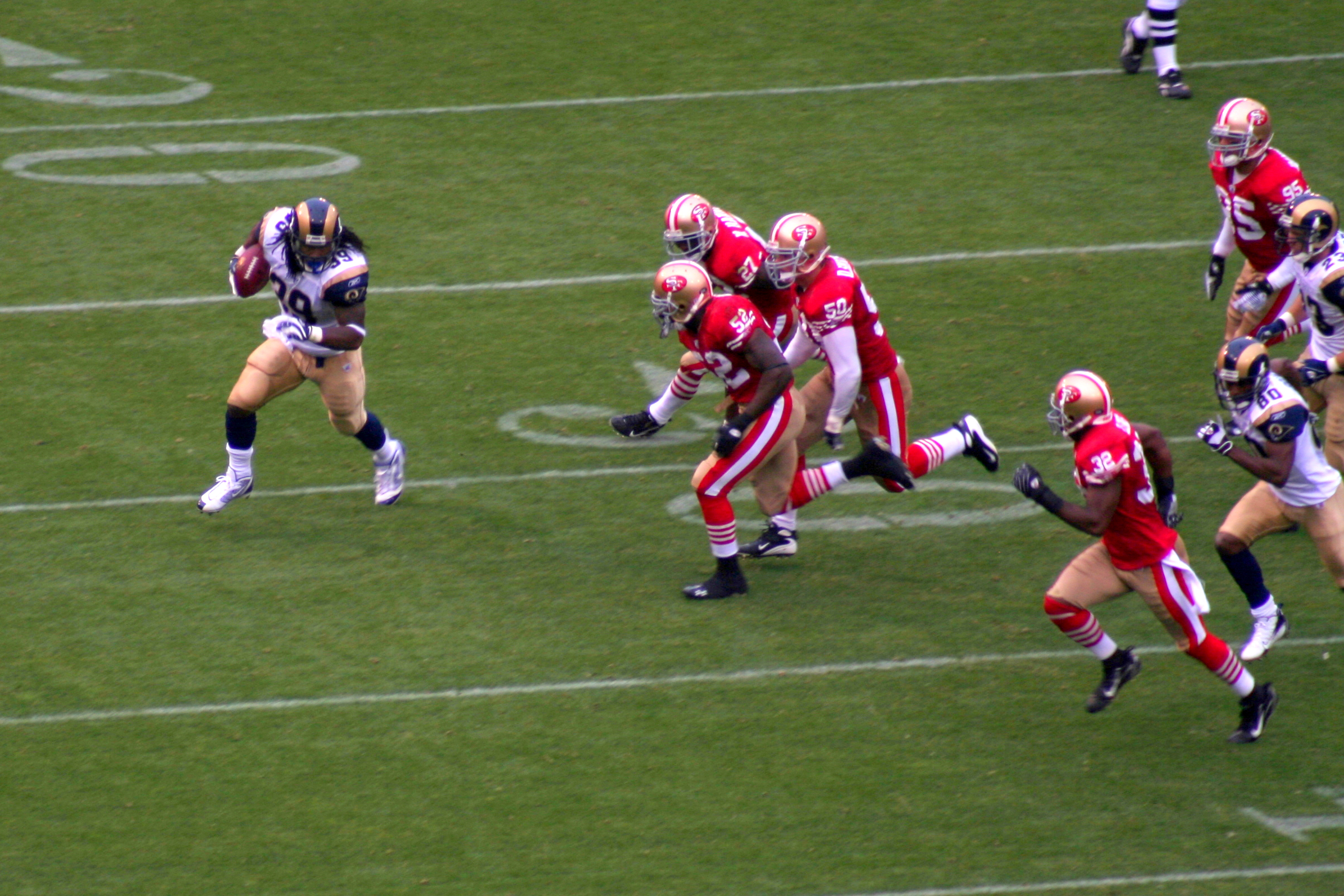 Steven Jackson of the St. Louis Rams rushes with the ball.